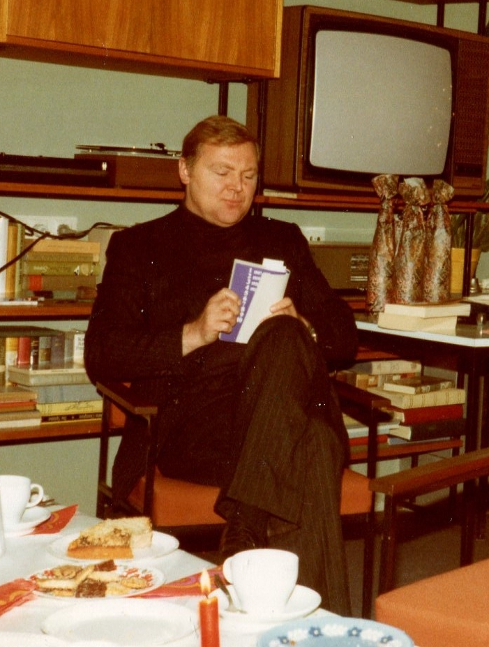 Actor Edgar Hoppe from Hamburg